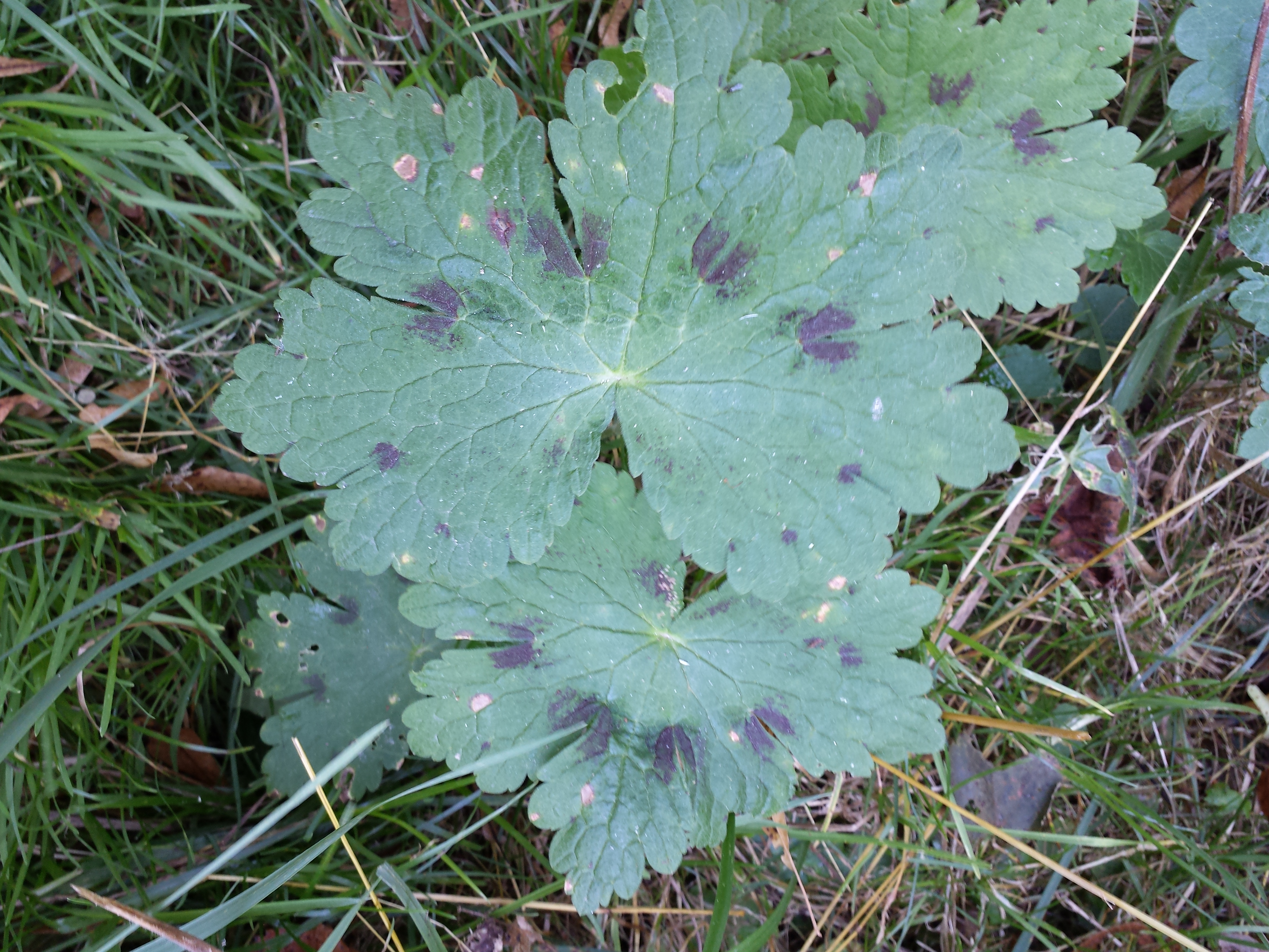 Leaves Taxon: Geranium phaeum subsp. phaeum (sensu Fischer et al. EfÖLS 2008 ISBN 978-3-85474-187-9) Location: Terčino údolí near Nové Hrady, Jihočeský kraj, Czech Republic - ca. 500 m a.s.l. Habitat: fertile meadow